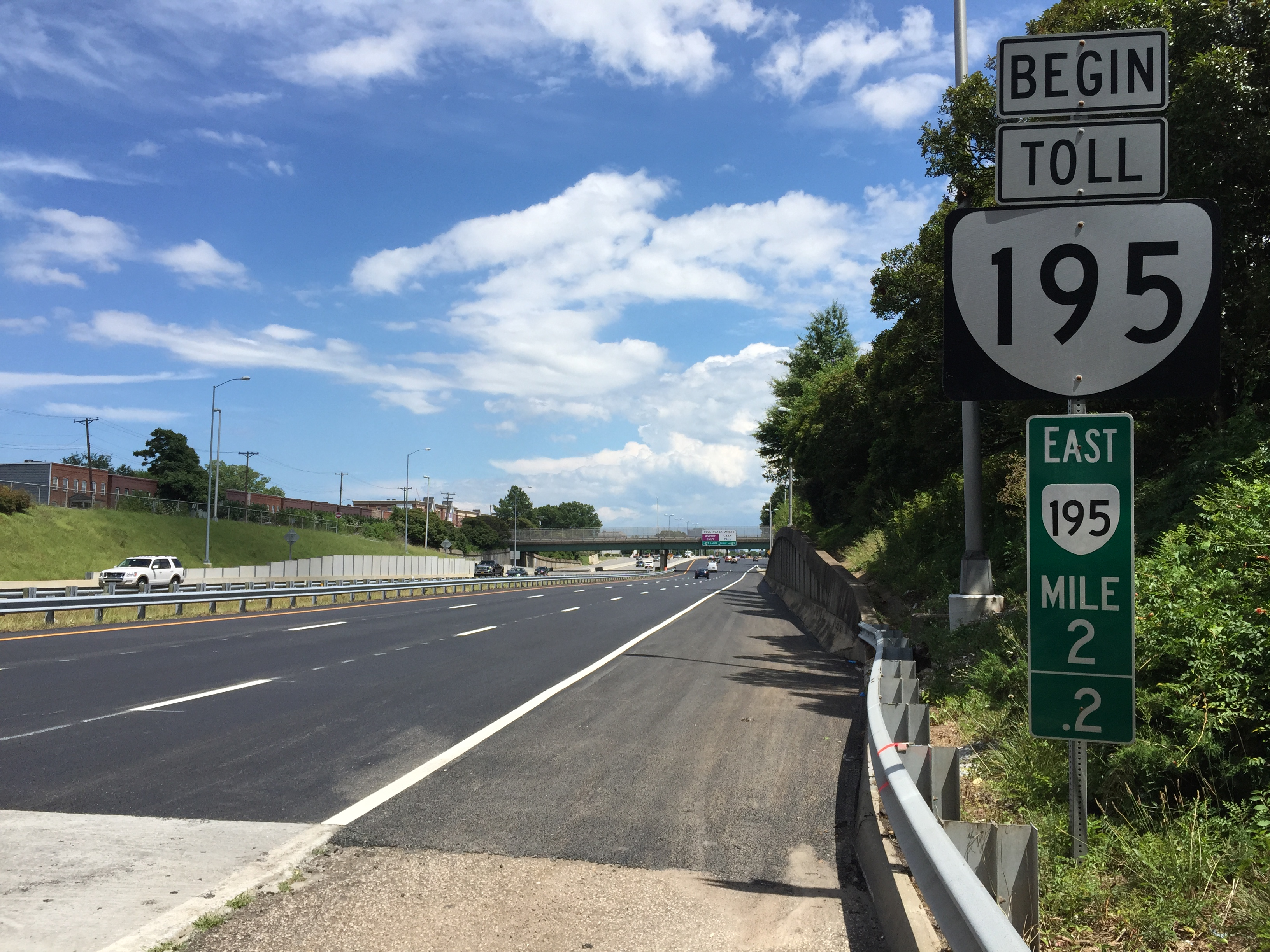 View east along Virginia State Route 195 (Downtown Expressway) at Meadow Street in Richmond, Virginia